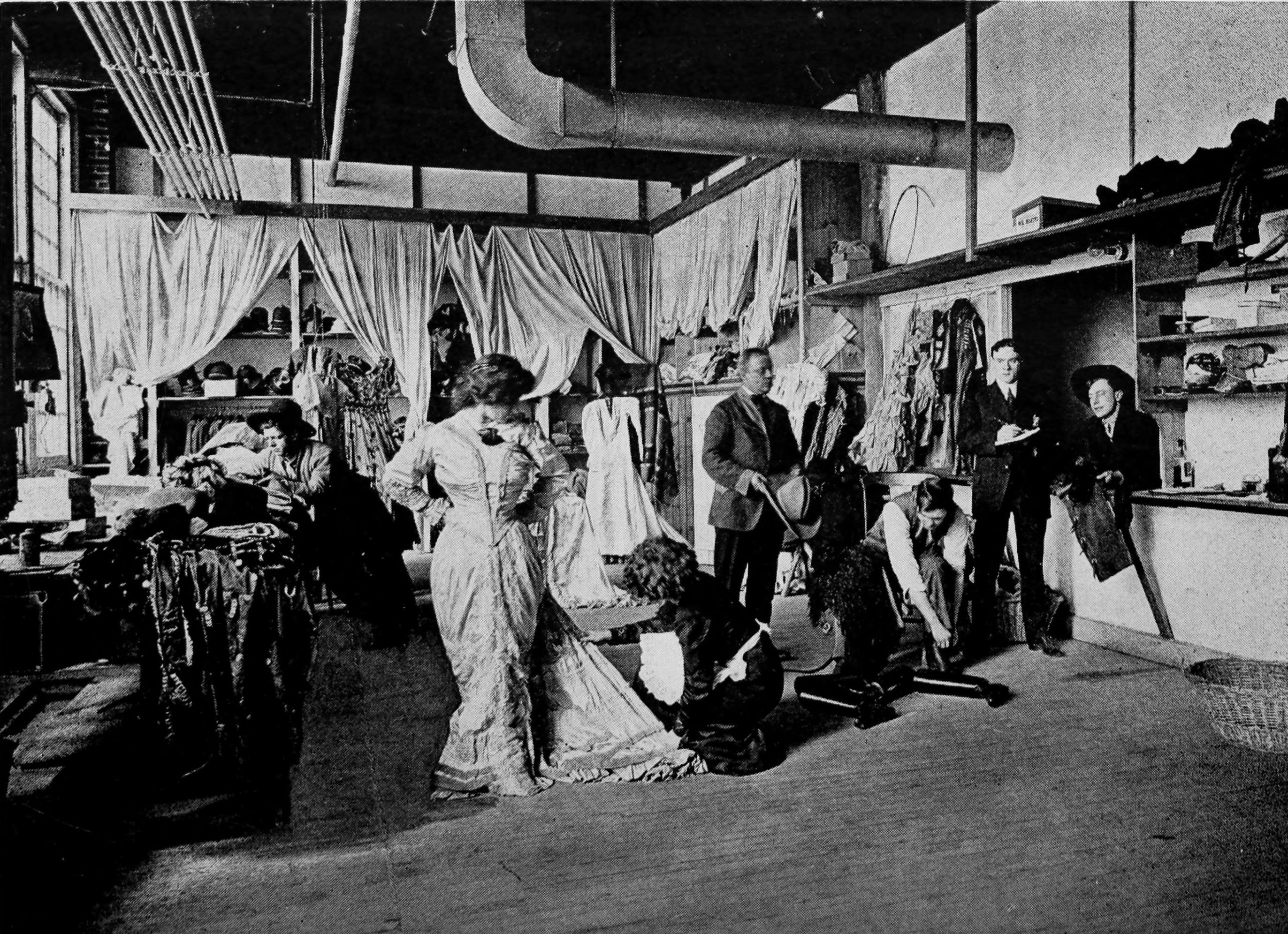 Wardrobe of the Lubin Philadelphia Studio, c. 1910